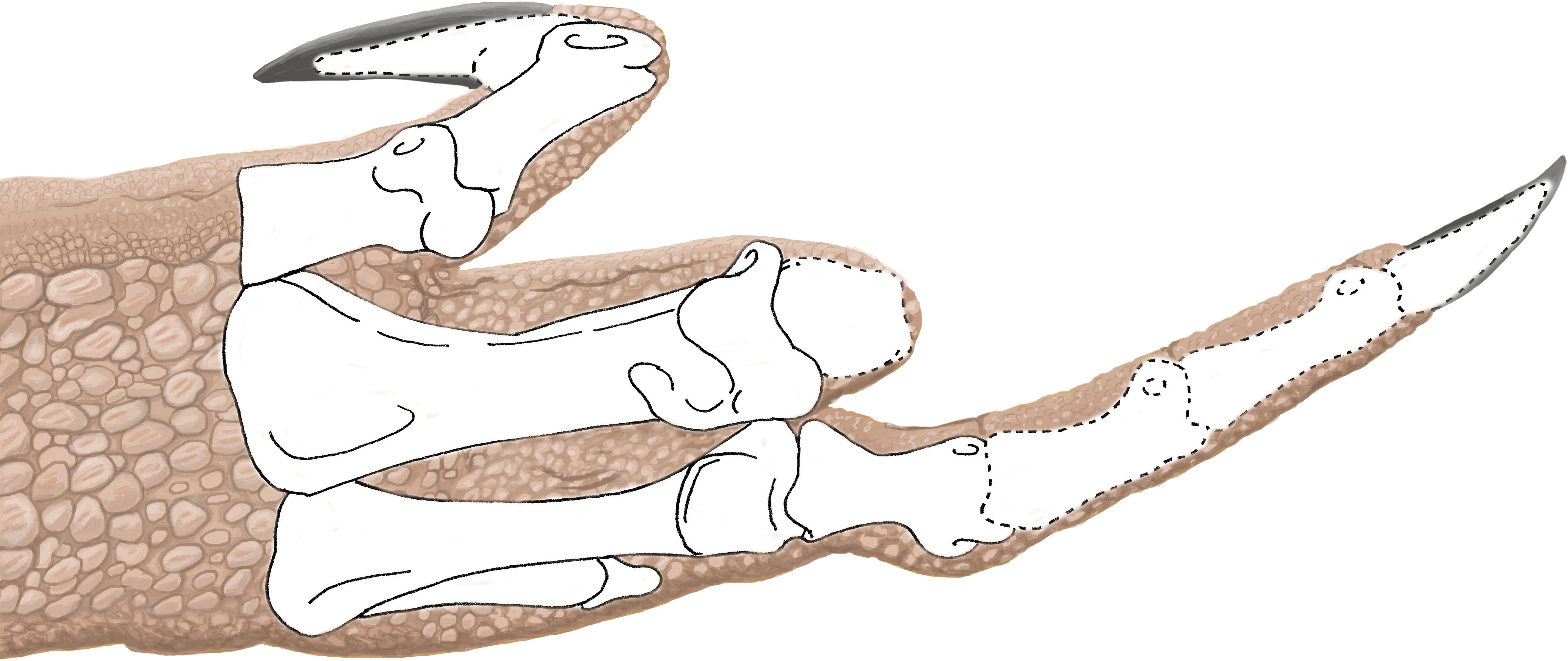 Hand of UCMP 37302 (Dilophosaurus wetherilli) in full flexion, showing pathological orientation of the phalanges of finger III. Note that the third finger is abnormally angled in two places: at the metacarpophalangeal joint and at the first interphalangeal joint. Bones with broken outlines are missing from the right hand and are reconstructed according to their shapes in the left hand.